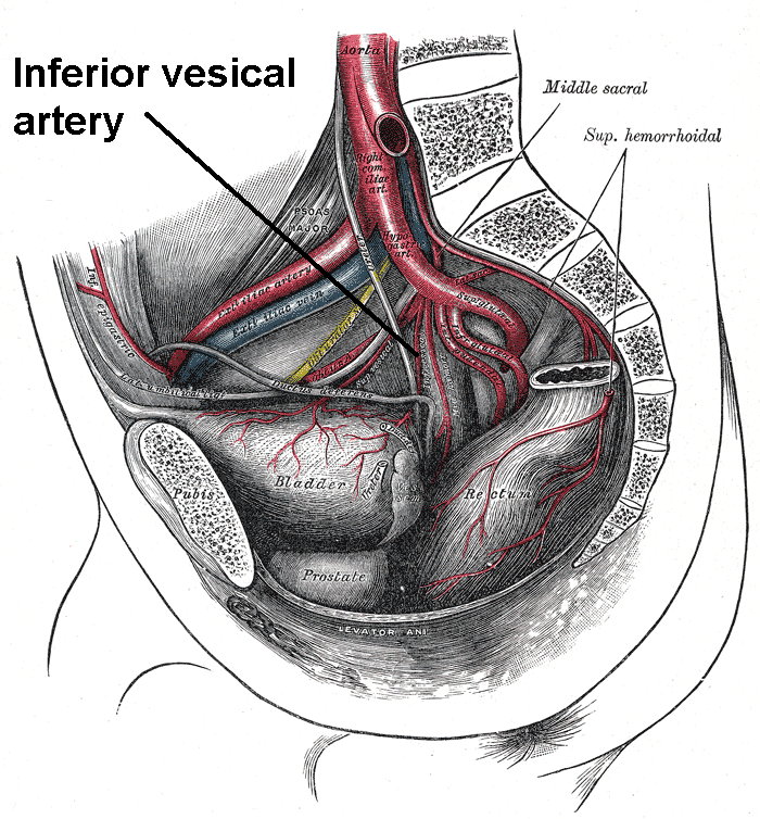 Application of Image:Gray539.png Inferior vesical artery